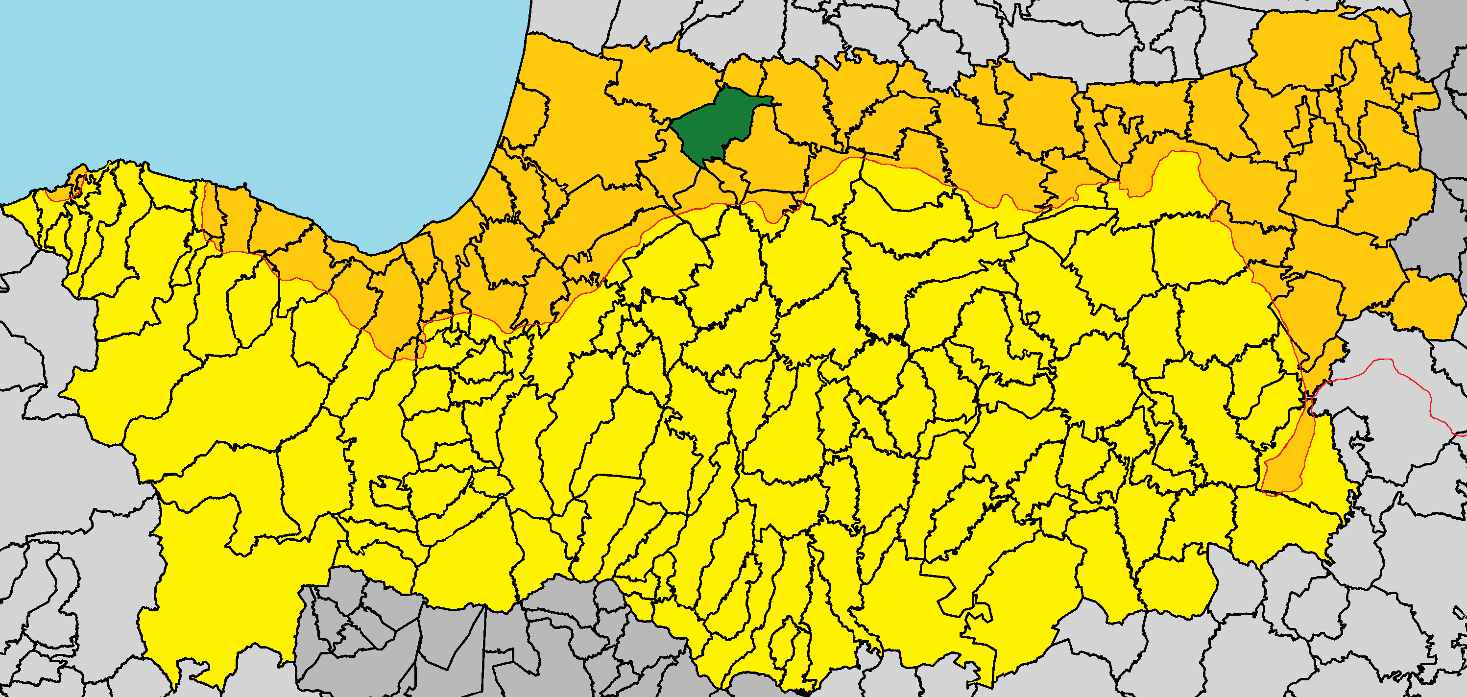 Kyra in Nicosia District (de jure).